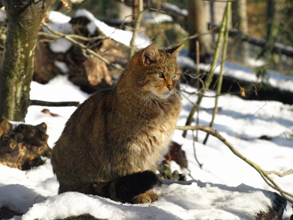 Wildcat in the zoo in Děčín, Czech Republic.